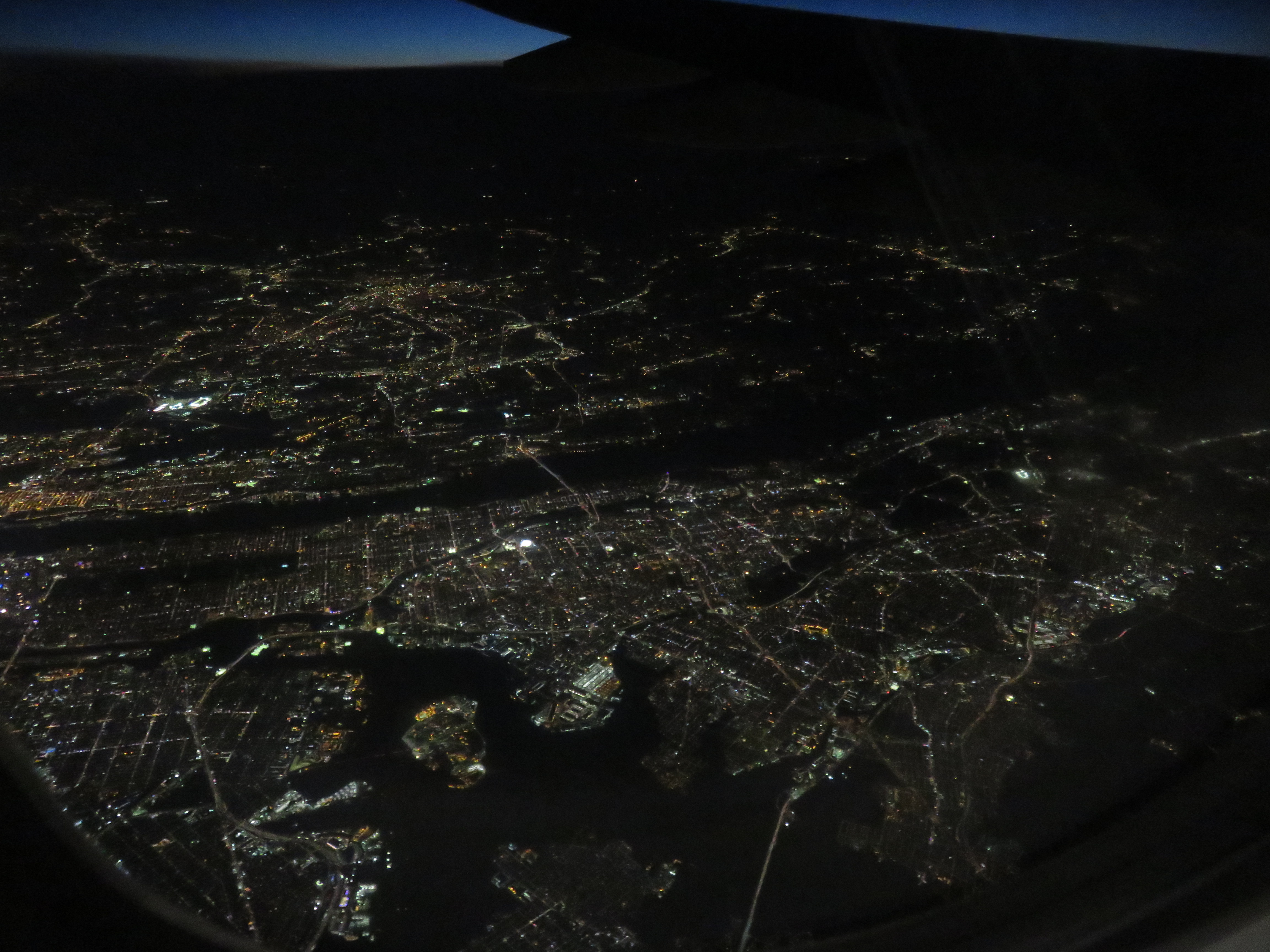 Aerial view of the Bronx at night in 2018